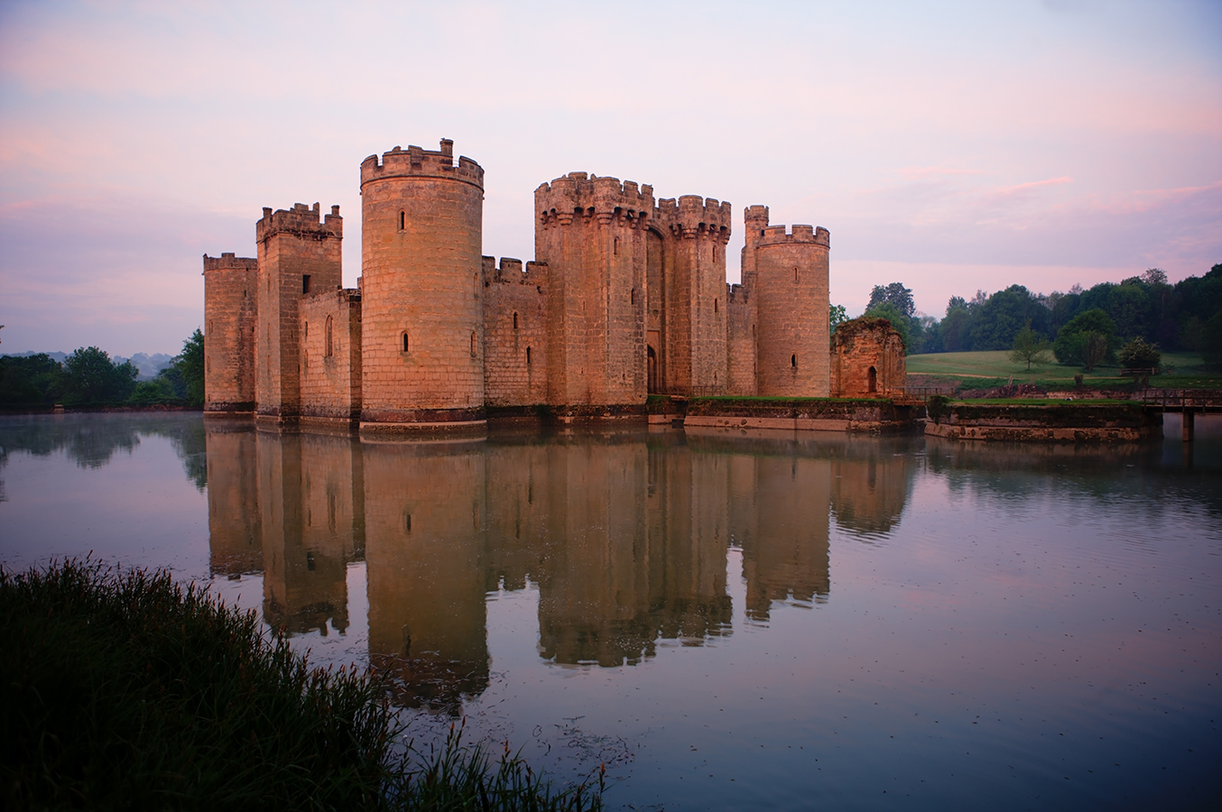 Bodiam Castle East Sussex England UK